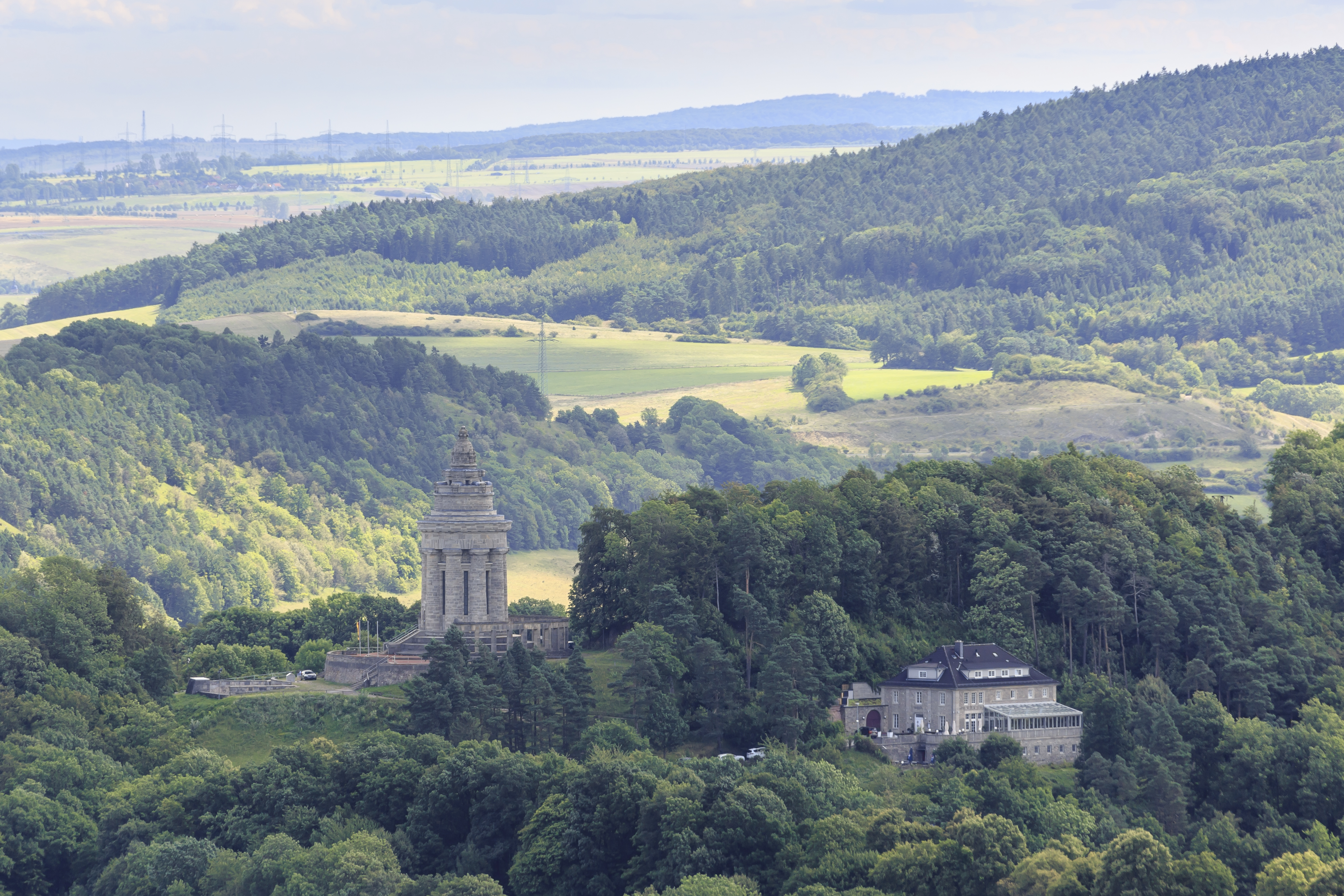 Eisenach, Germany: Burschenschaftsdenkmal and Burschenhaus (today Berghotel Eisenach), seen from Wartburg castle